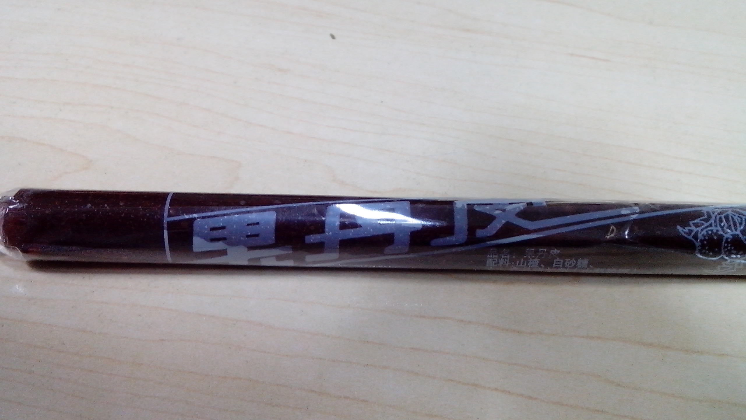 guodanpi（Haw Rolls）